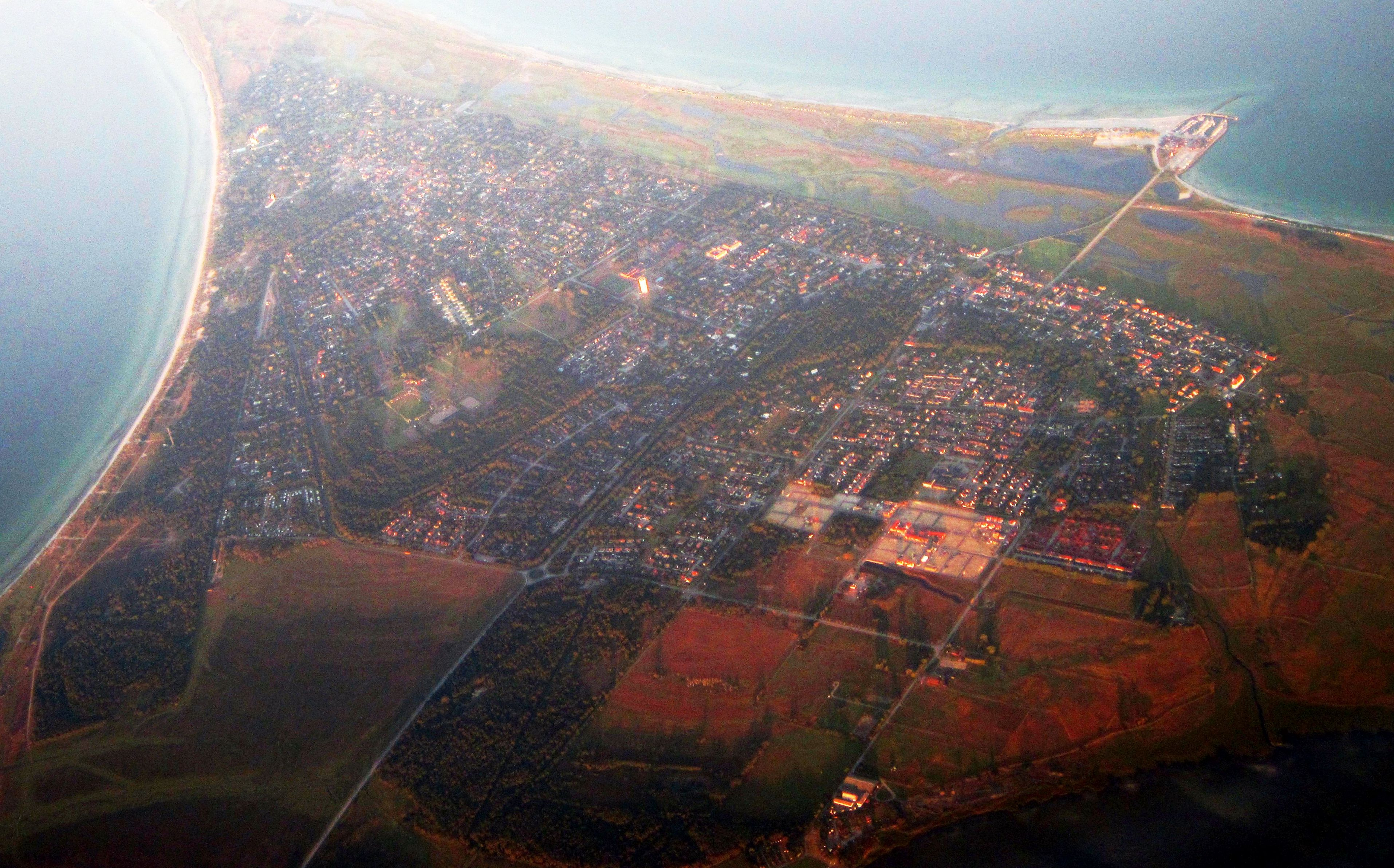 Skanör is in the center, and Falsterbo in top-left